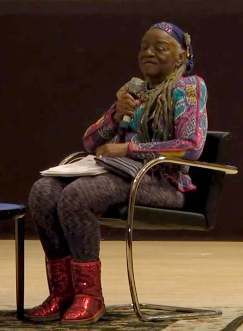 American artist Faith Ringgold at the symposium "We Wanted a Revolution"